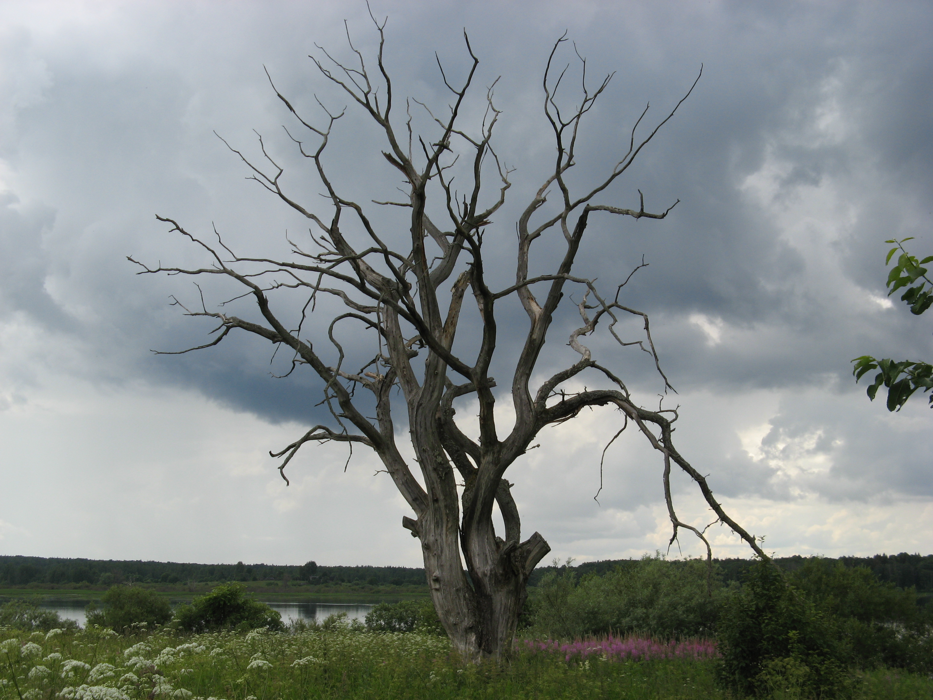 Valdai Hills